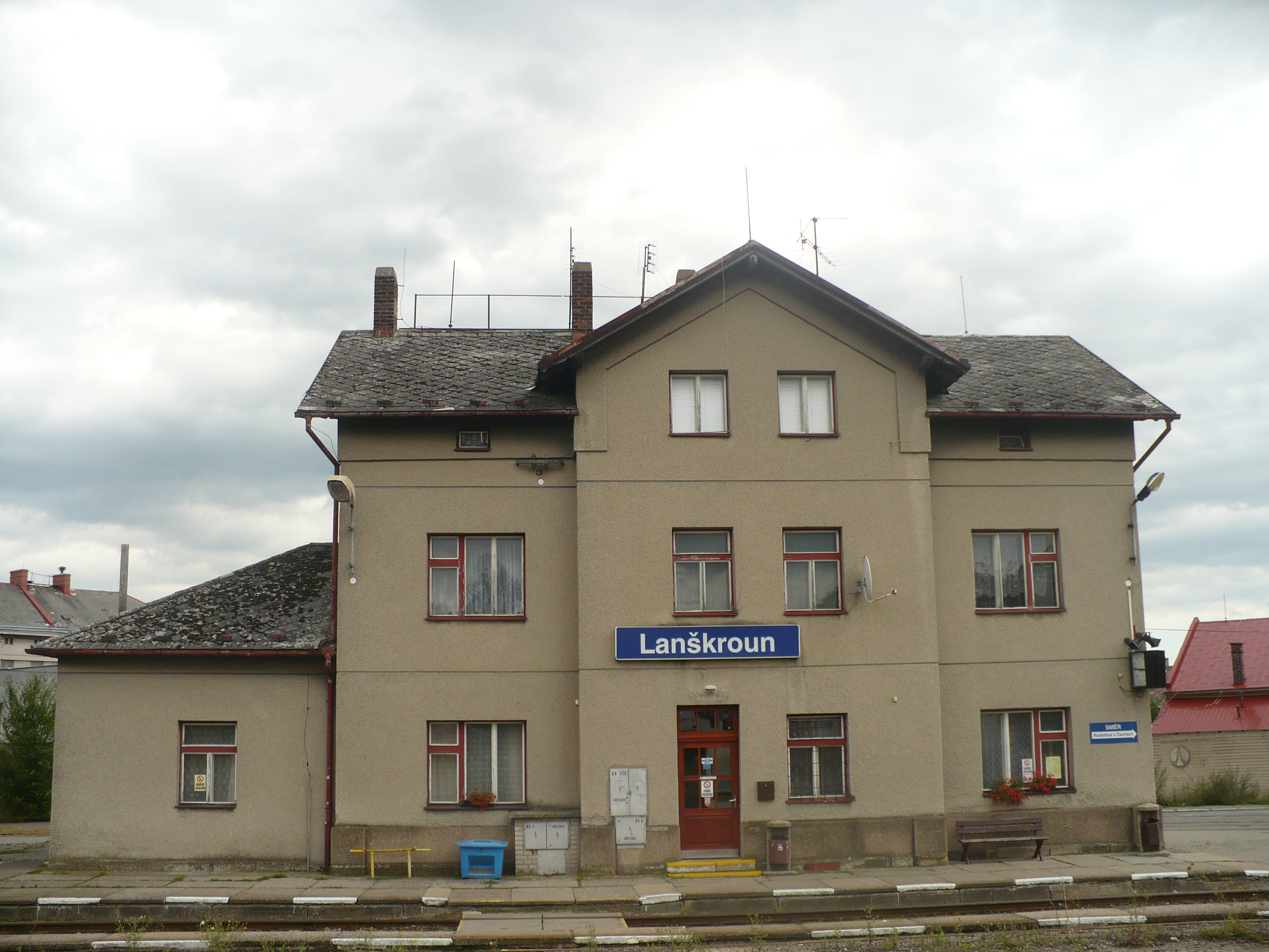 Train station in Lanškroun (Czech Republic)